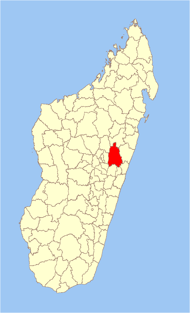 Map of Moramanga district